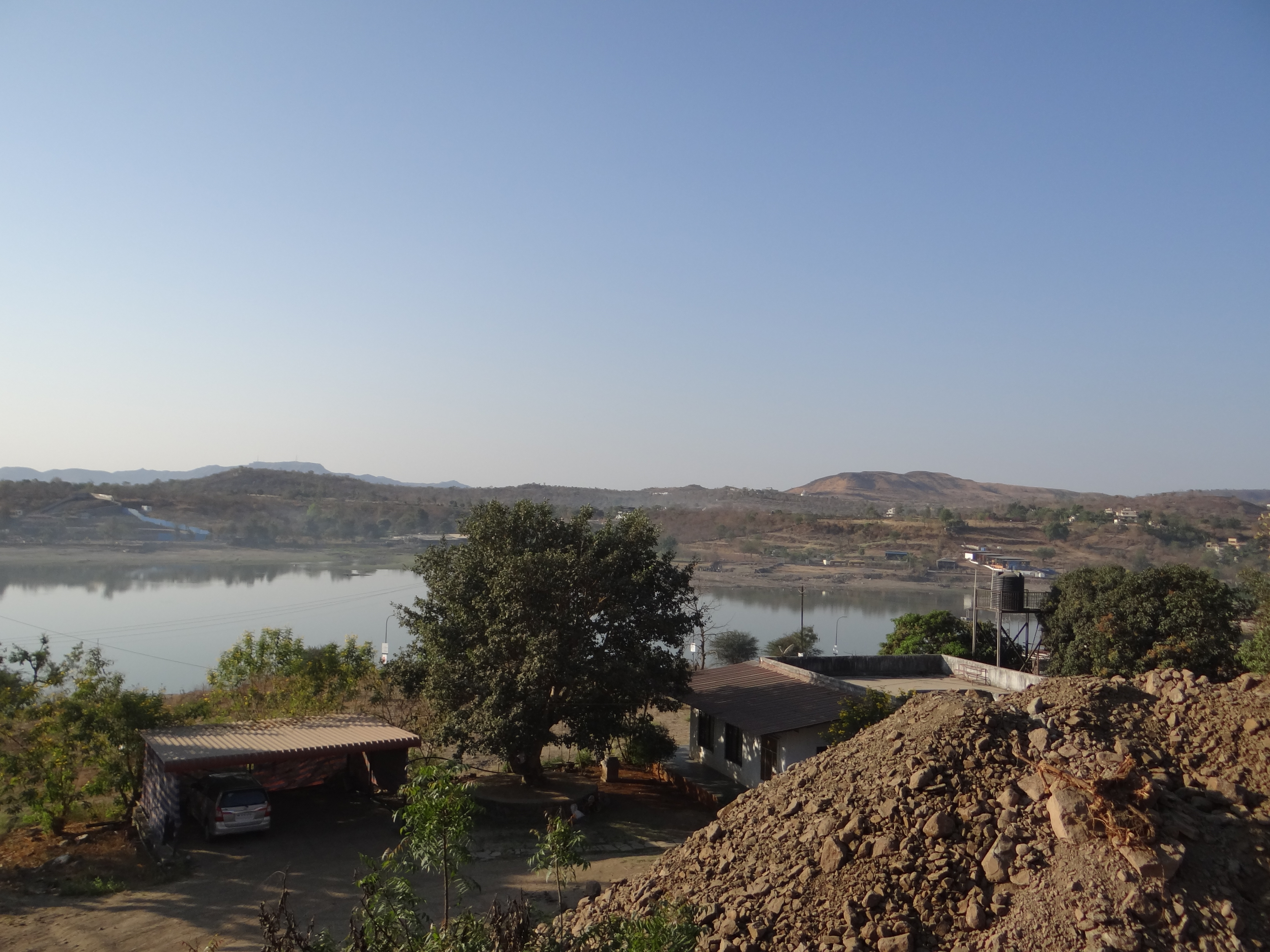 Manas Lake is 2nd lake on Ramnadi